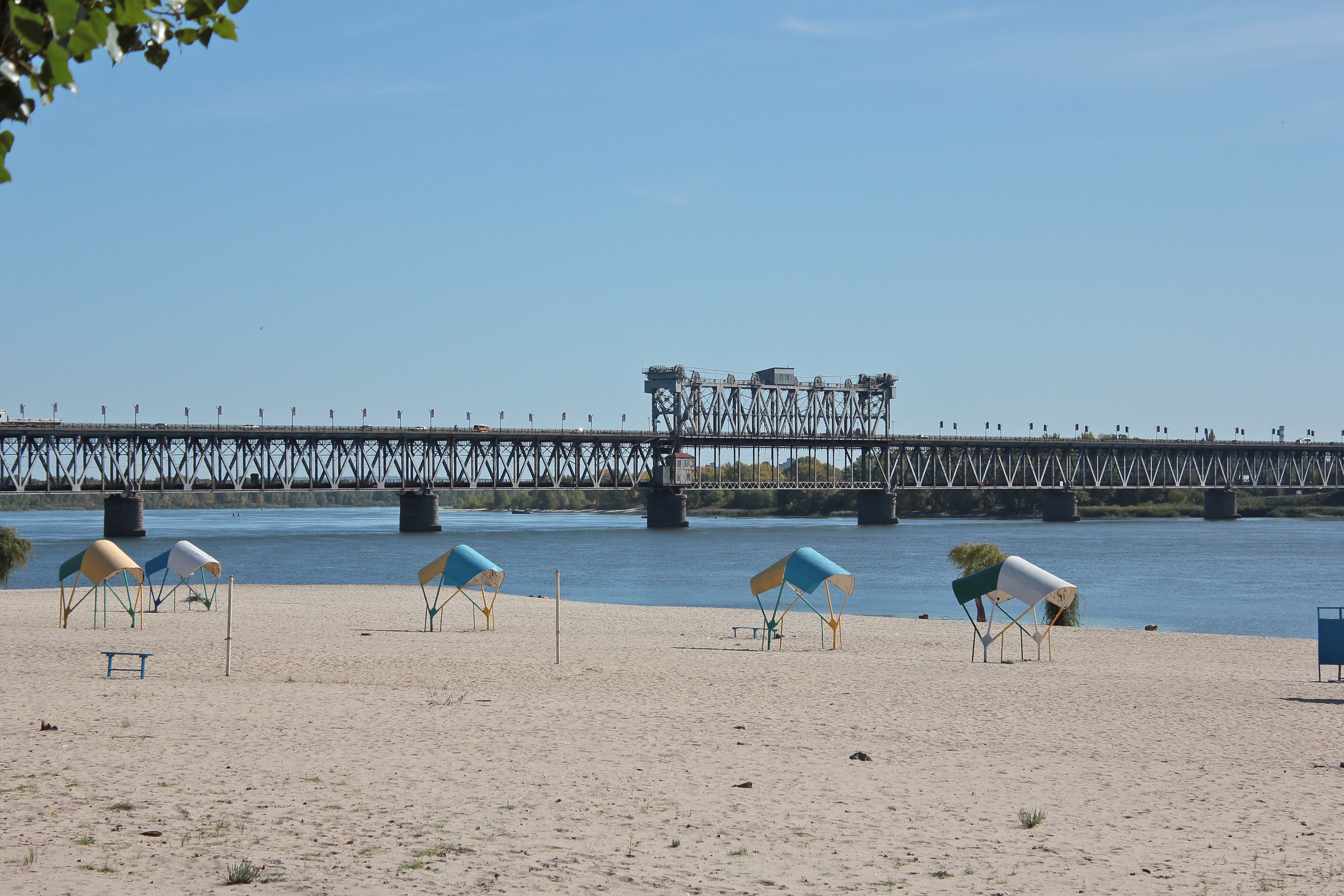 Bridge over the Dnieper River in Kremenchuk, Ukraine, viewed from the northwest (looking southeast). It was built in 1947–49, to replace an earlier bridge destroyed by bombing during World War II.